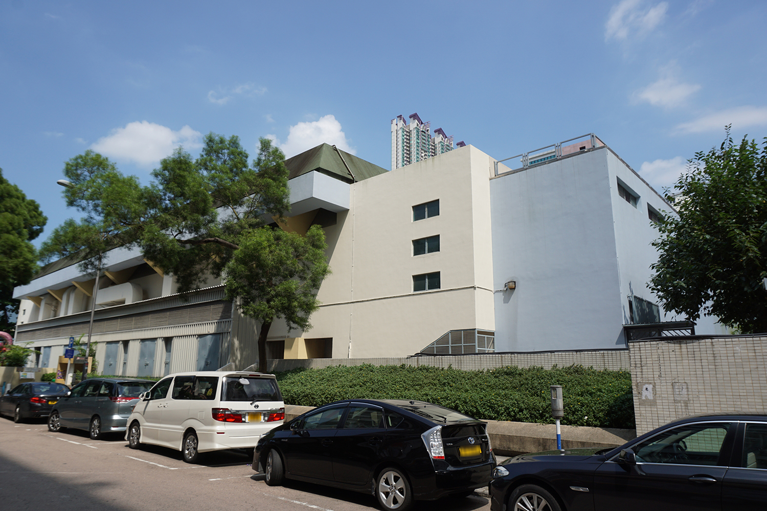 Sports Centre in To Kwa Wan, Hong Kong.